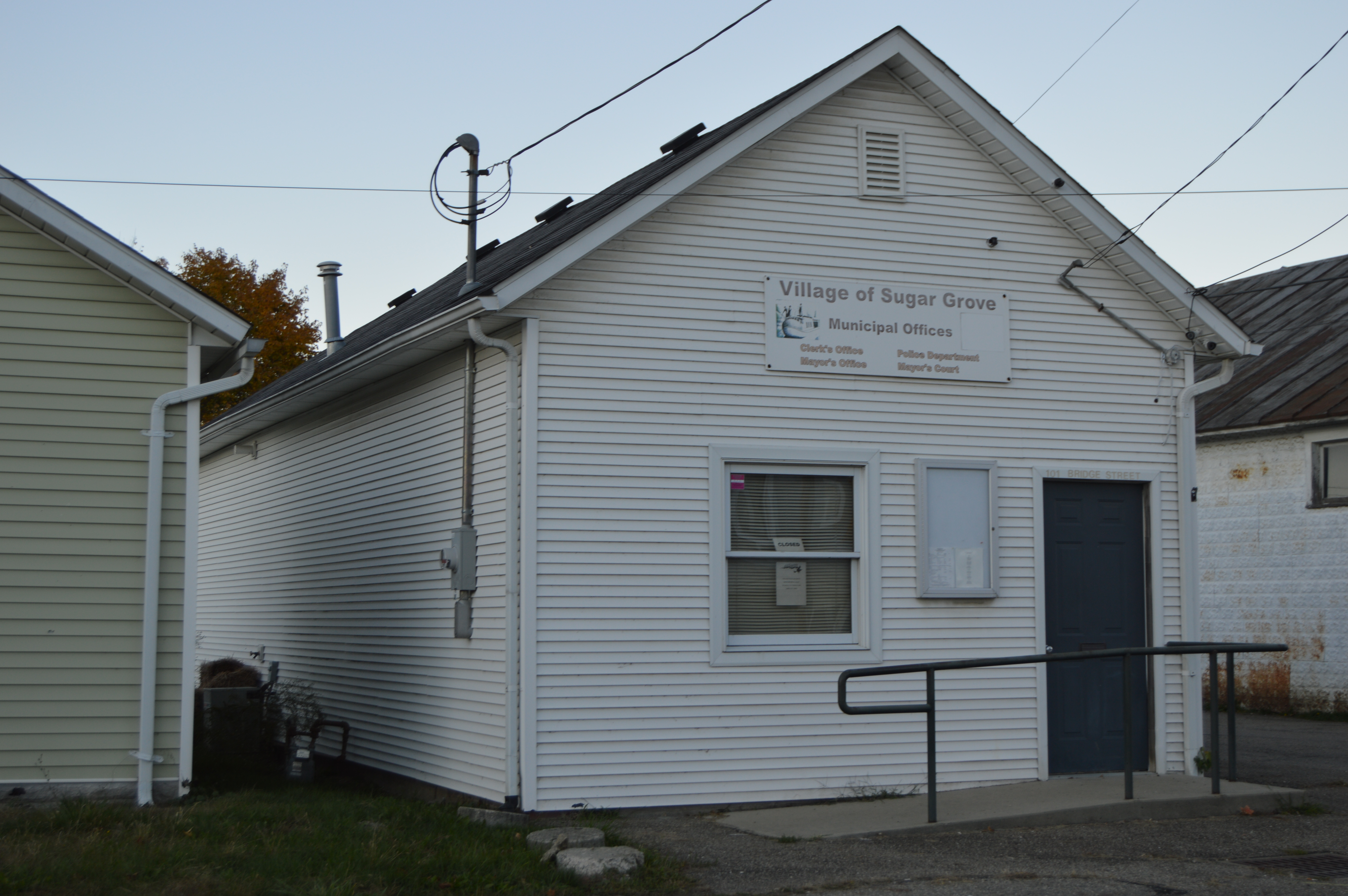 Front and western side of the Sugar Grove village hall, located at 101 Bridge Street in Sugar Grove, Ohio, United States.